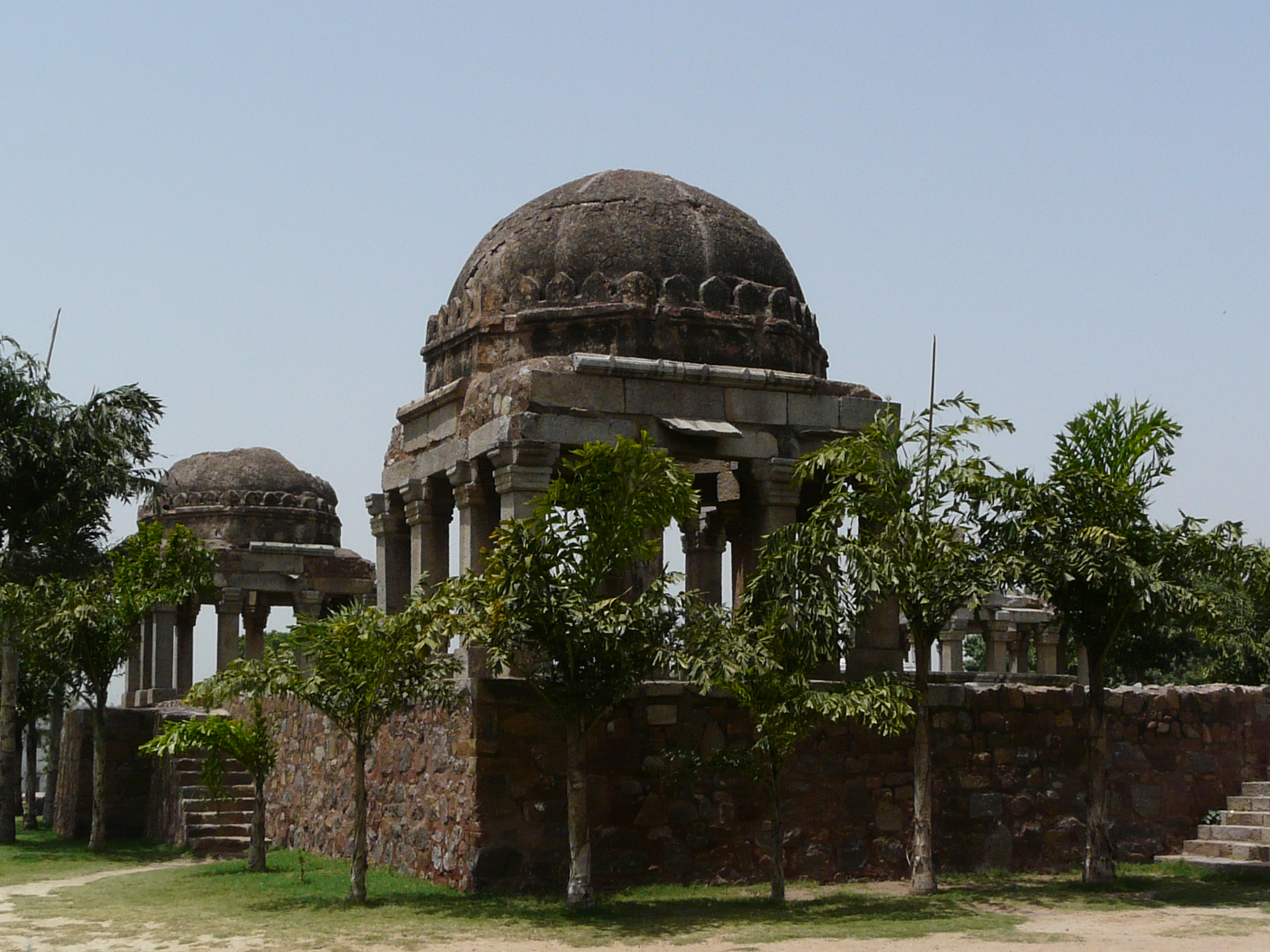 Daryakhan's tomb.